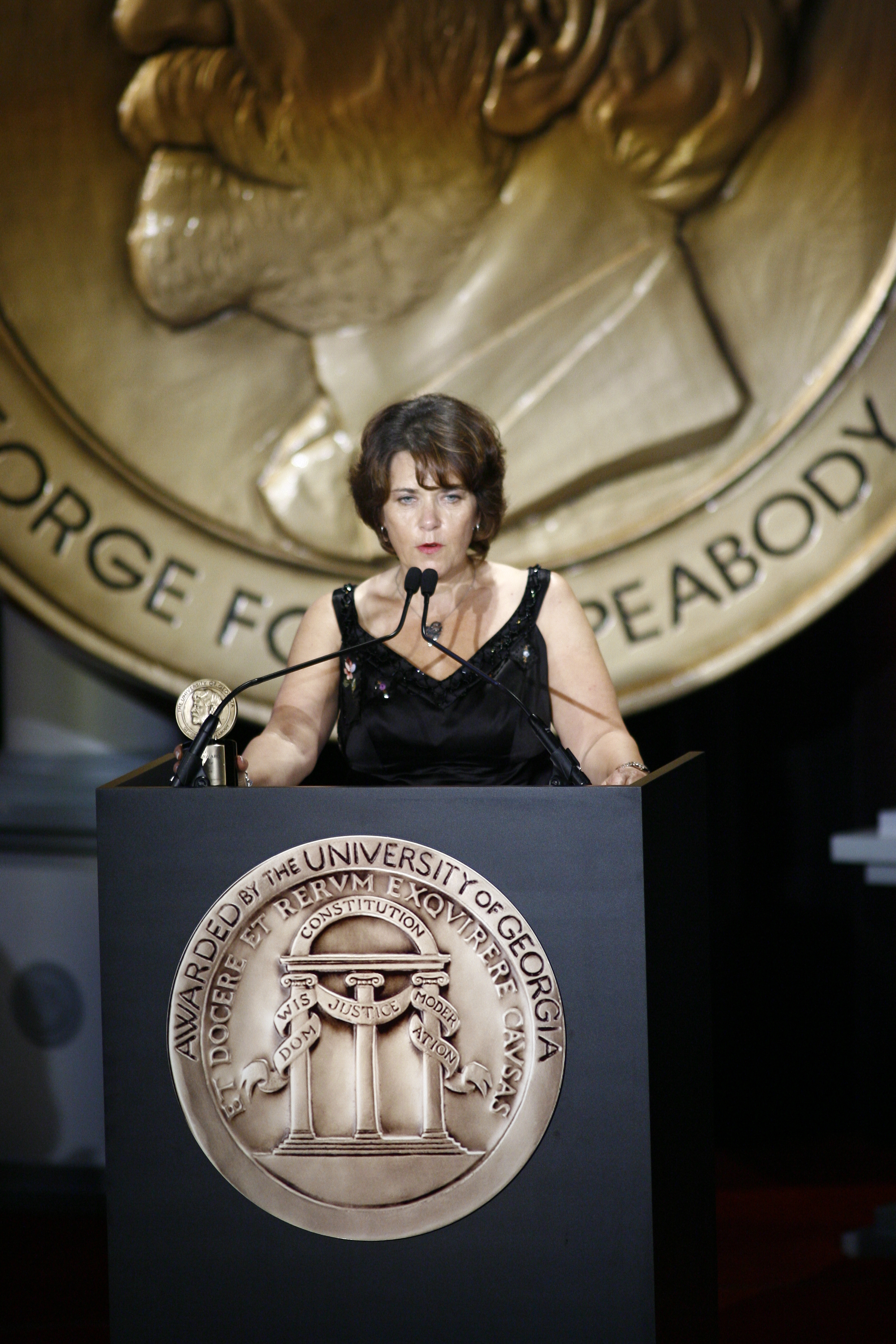 Lorraine Heggessey, 66th Annual Peabody Awards Luncheon Waldorf=Astoria Hotel New York, NY USA June 4, 2007